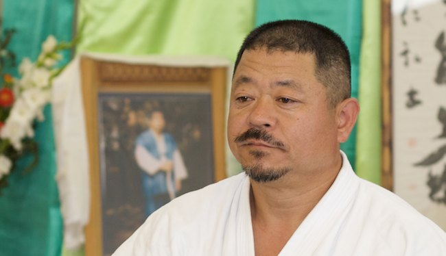 SAITO Hitohiro Sensei in Portugal by 2008 (15th of may) photo from Eric Savalli